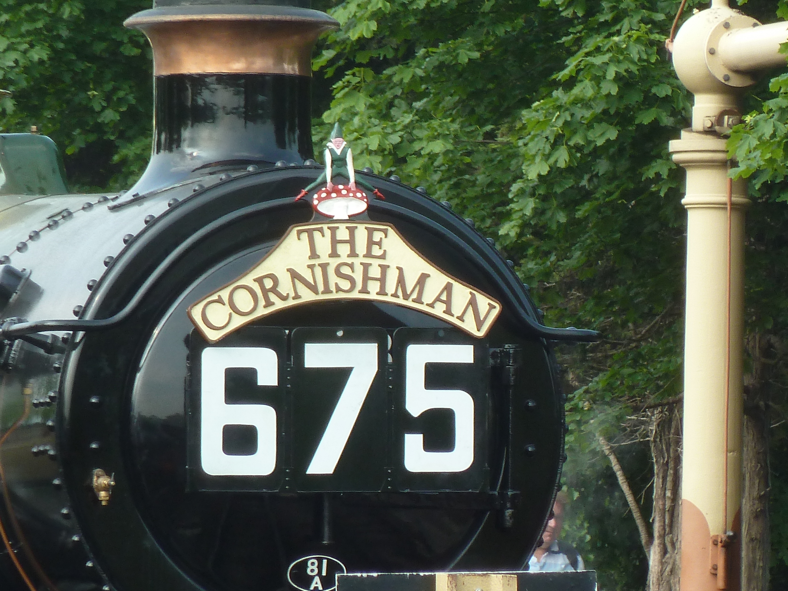 BR (WR) Hall class Foremarke Hall returns to steam at the Gloucester and Warwickshire Railway steam weekend, May 2016. Carrying the headboard of The Cornishman and a GWR reporting number of 675